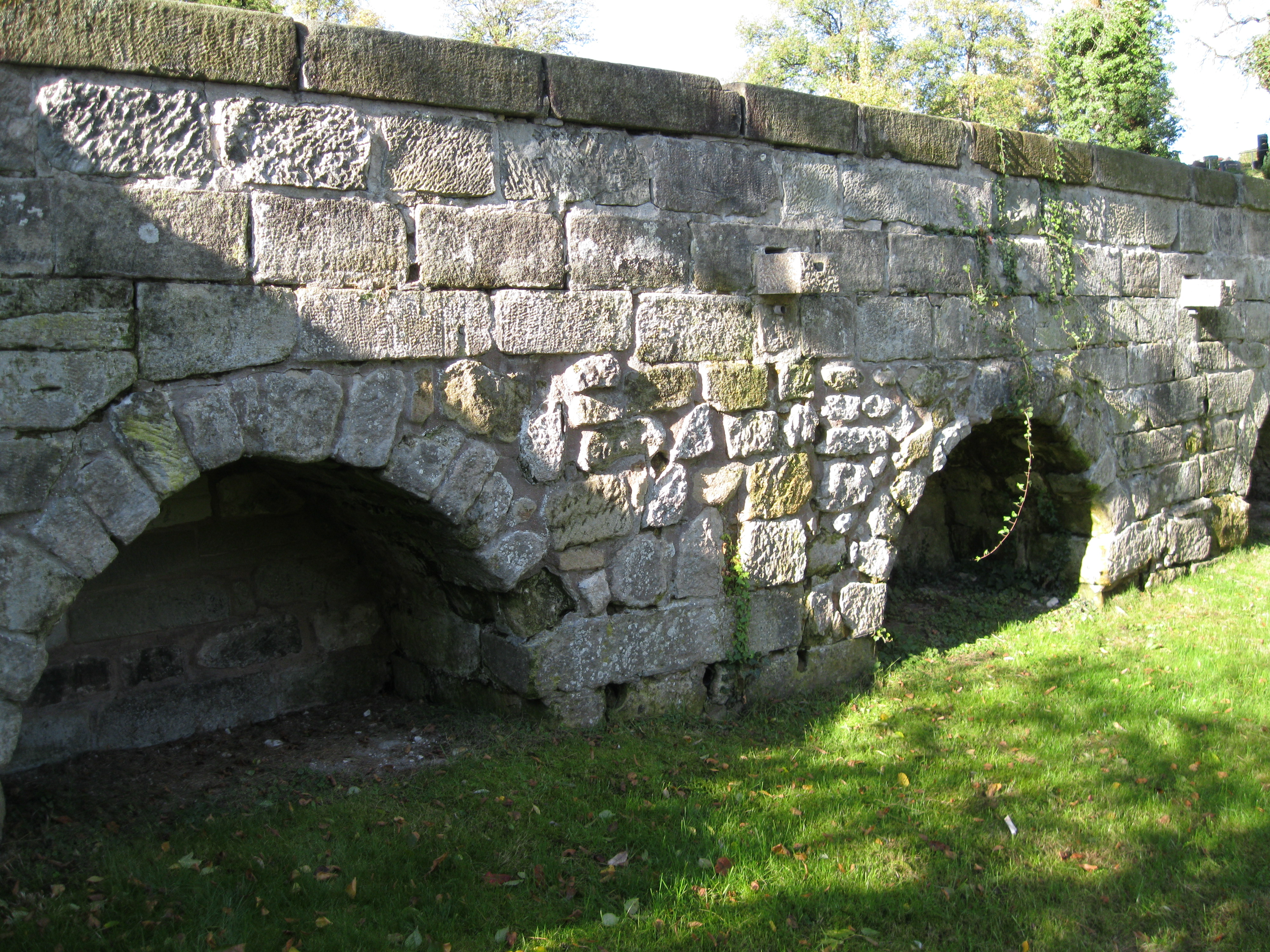 Roman bridge at the Walterichskirche in Murrhardt